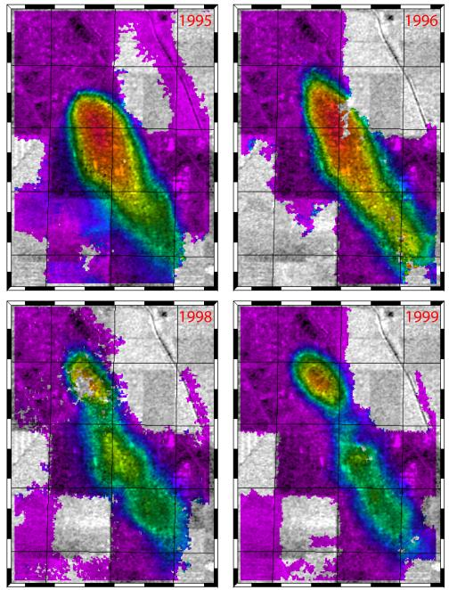 PIA03458: Lost Hills, California Interferogram